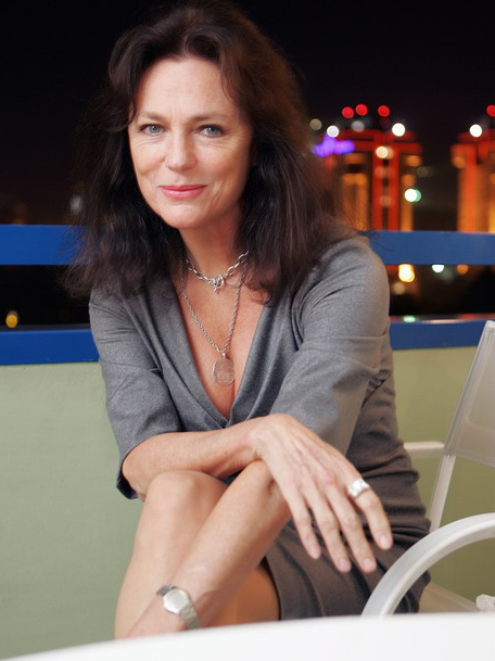 Jacqueline Bisset in Almaty, Kazakhstan in September 2007.